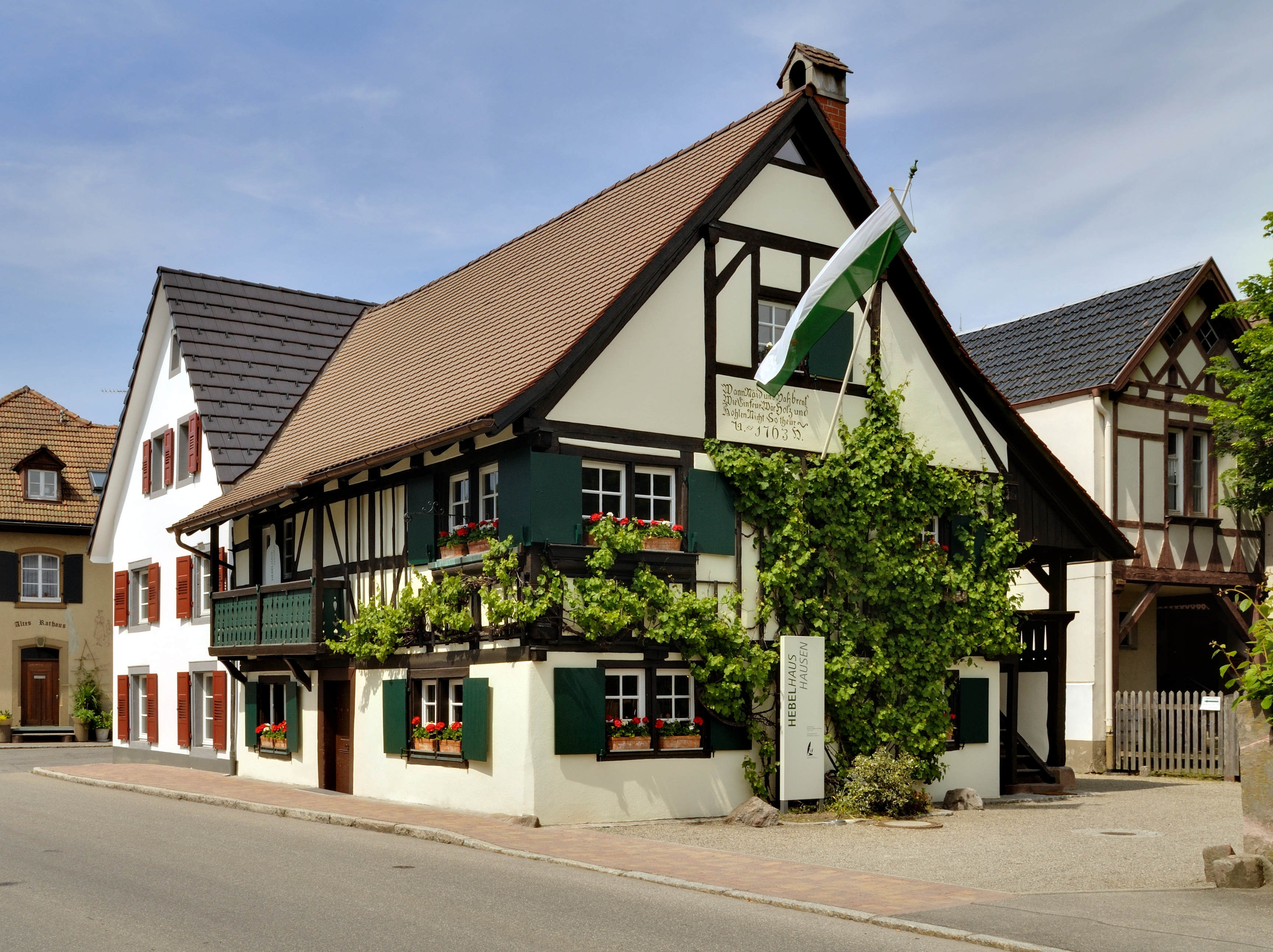 Hausen im Wiesental: Hebel house (museum).